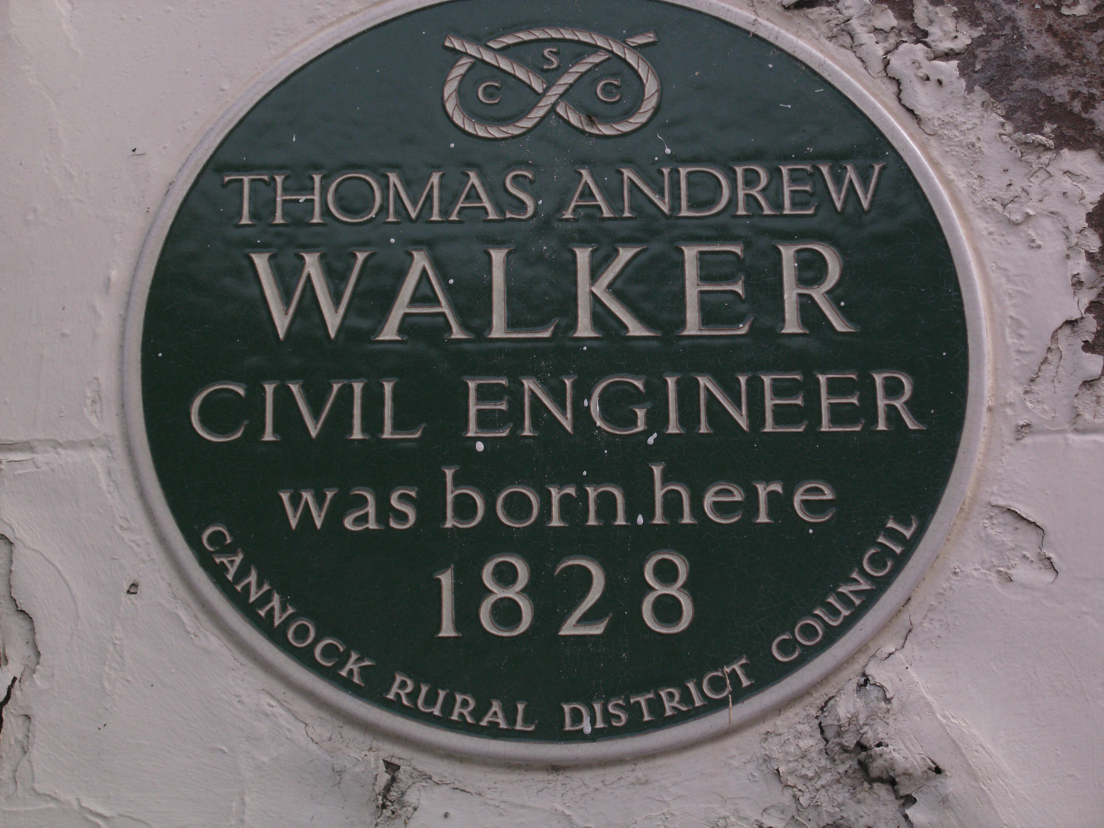 Birthplace plaque for Thomas Andrew Walker (1828-1889), engineer and contractor, Brewood, Staffordshire, England